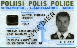 ID card of the policemen of the Finnish police.